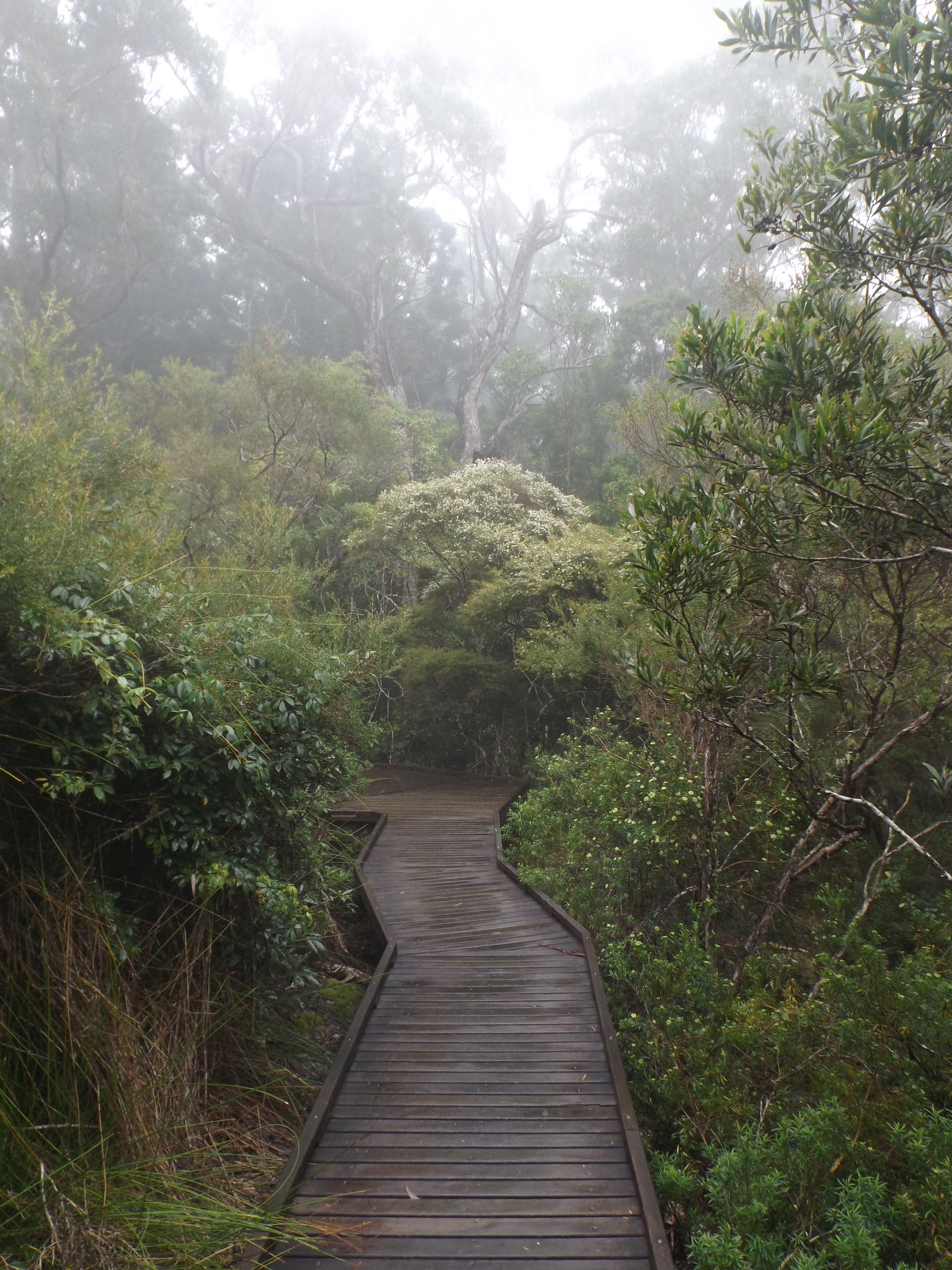 Photo of mist and rainforest along boardwalk on Old School Road in Springbrook National Park, Springbrook, City of Gold Coast, Queensland, Australia.